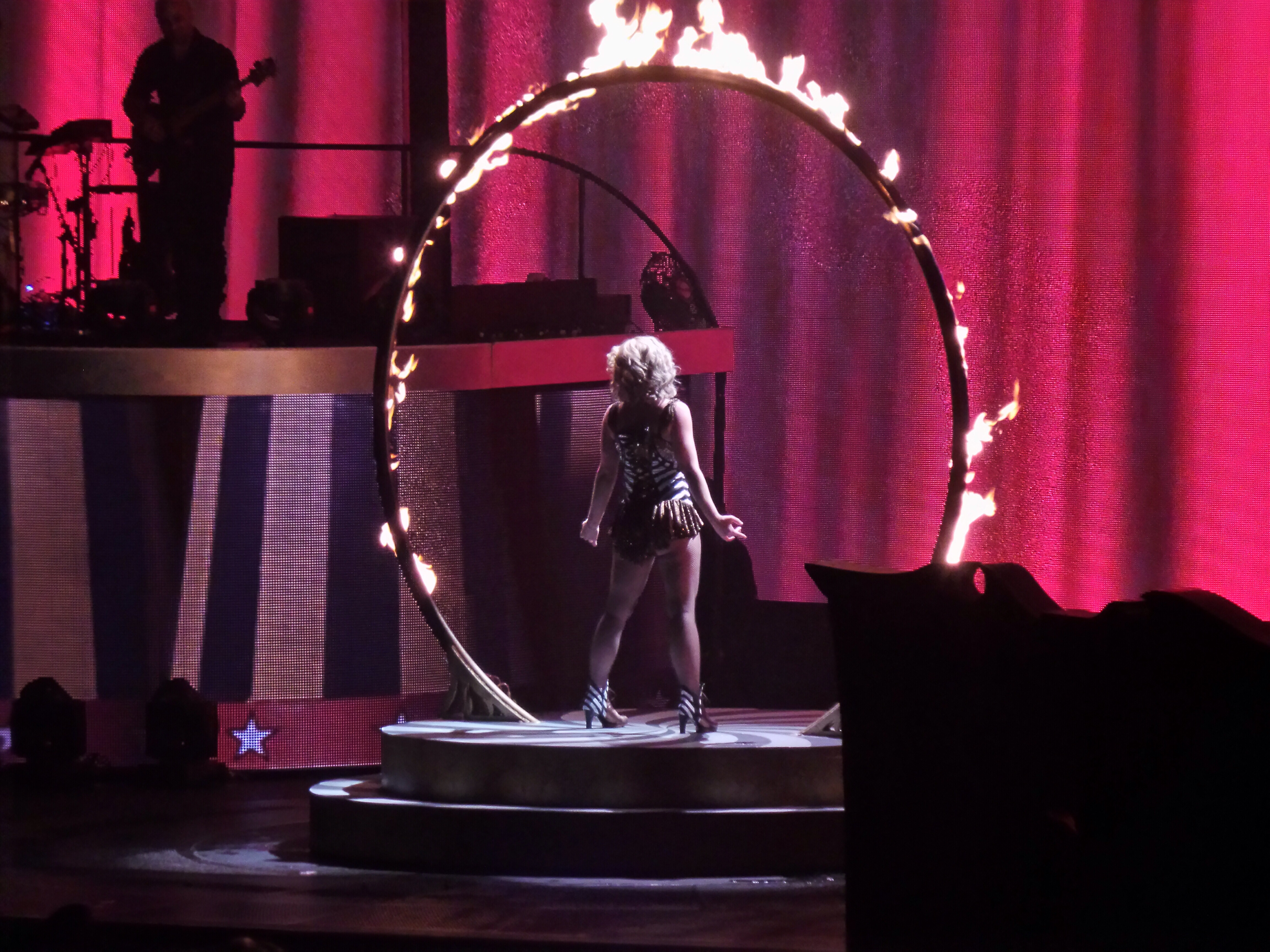 Britney